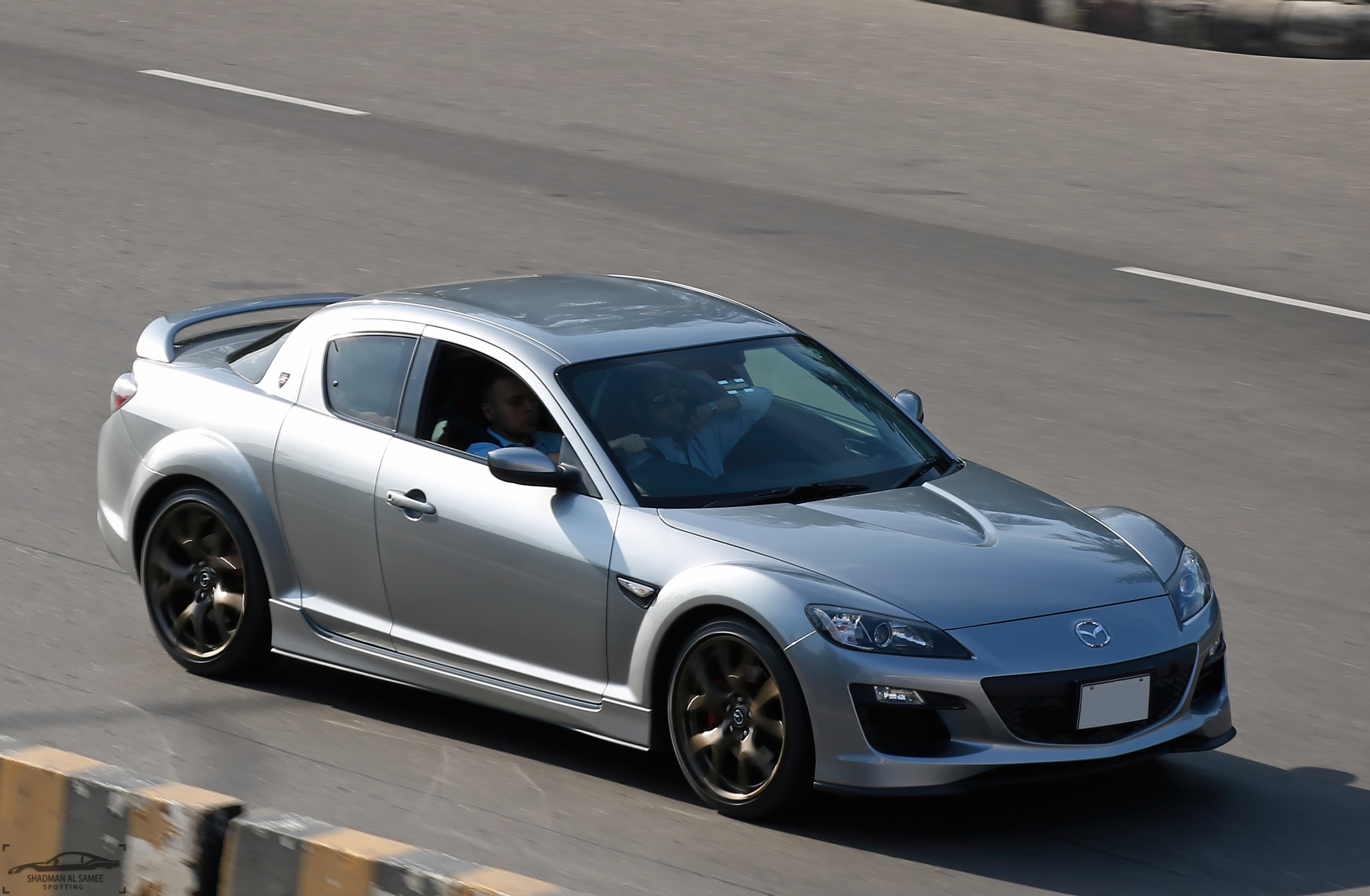 Airport Rd 2018.